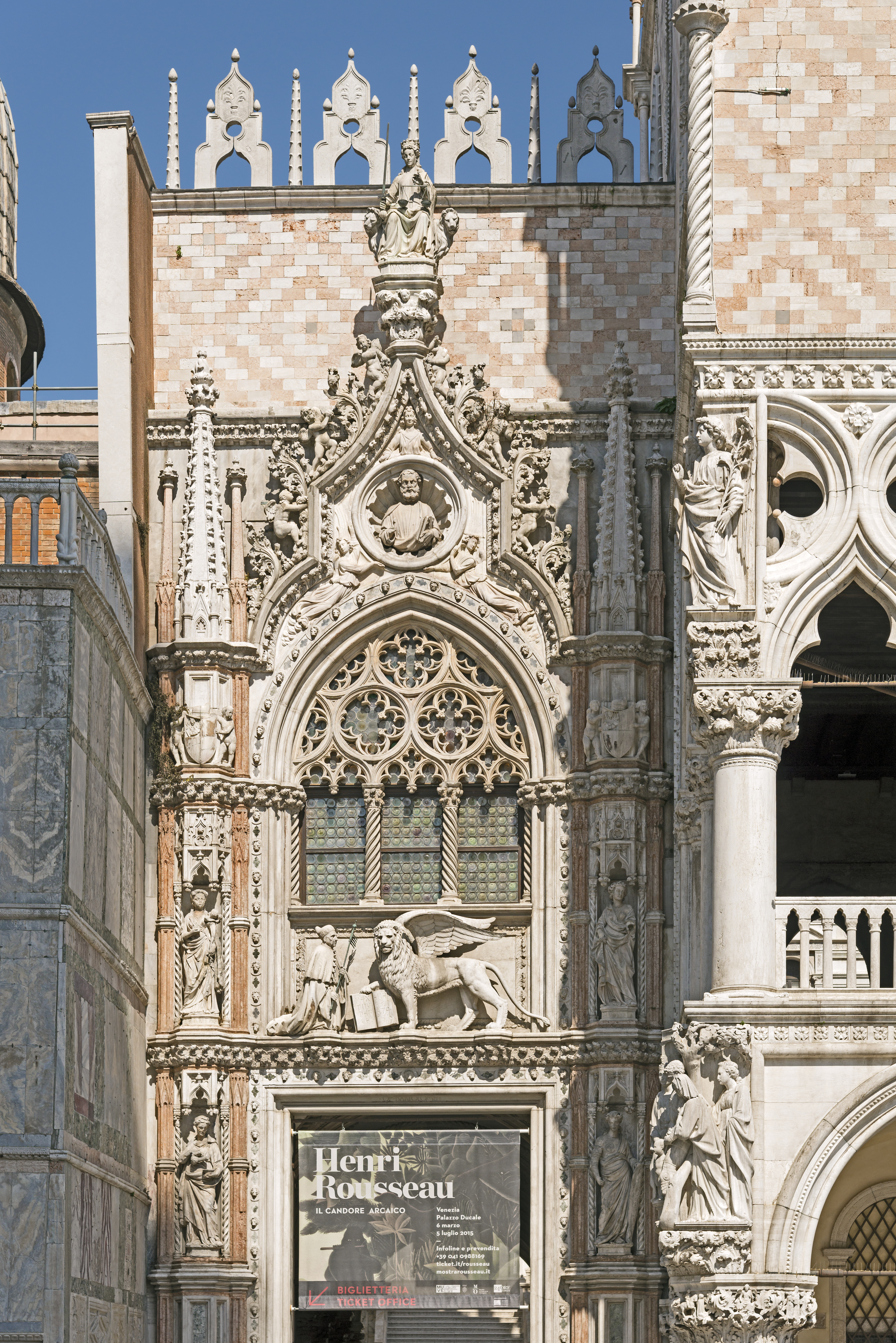 The "Porta della Carta" is the entrance of the Palazzo Ducale in Venice. It was built in the flamboyant Gothic style designed by Giovanni and Bartolomeo Bon in 1438-1442. Above the door, shows the Doge Francesco Foscari; sculpture that you see now, however, is a nineteenth century copy, sculpted by Luigi Ferrari after the original was destroyed in 1797, the fall of the Venetian Republic.